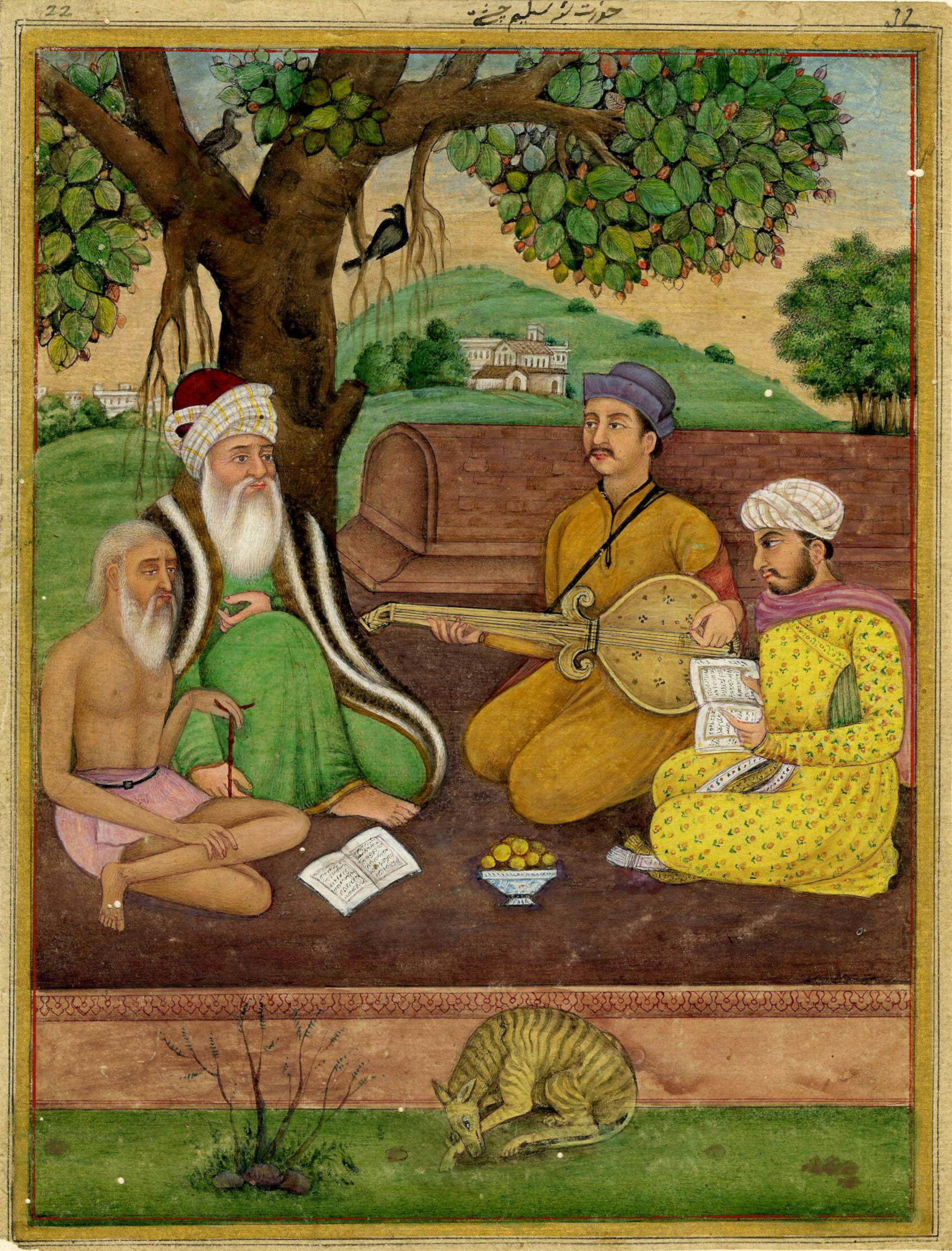 lbum leaf. Devotion. An ascetic, Shaix Salím Chishtí of the Chishtiyya, sitting under a tree in a cemetery with musicians and attendants. On paper.